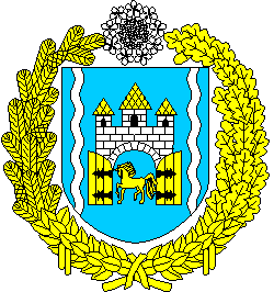 Coat of arms of Browarski Raion, Kiev Oblast Ukraine.